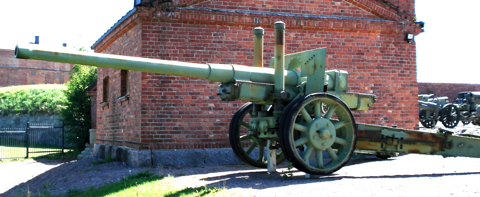 Soviet 122 mm M1931 gun, displayed in Hämeenlinna Artillery Museum. This improved version of the M1927 gun has rubber wheels better suitable for motor-towing. Photo taken on June 18, 2006. Source: Photo by me, User:Balcer.